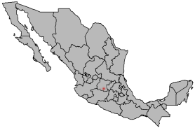 localizacion salvatierra